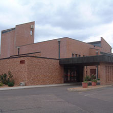 This is a photo of Good Shepherd Lutheran taken during the summer of 2009 with a church-owned camera.